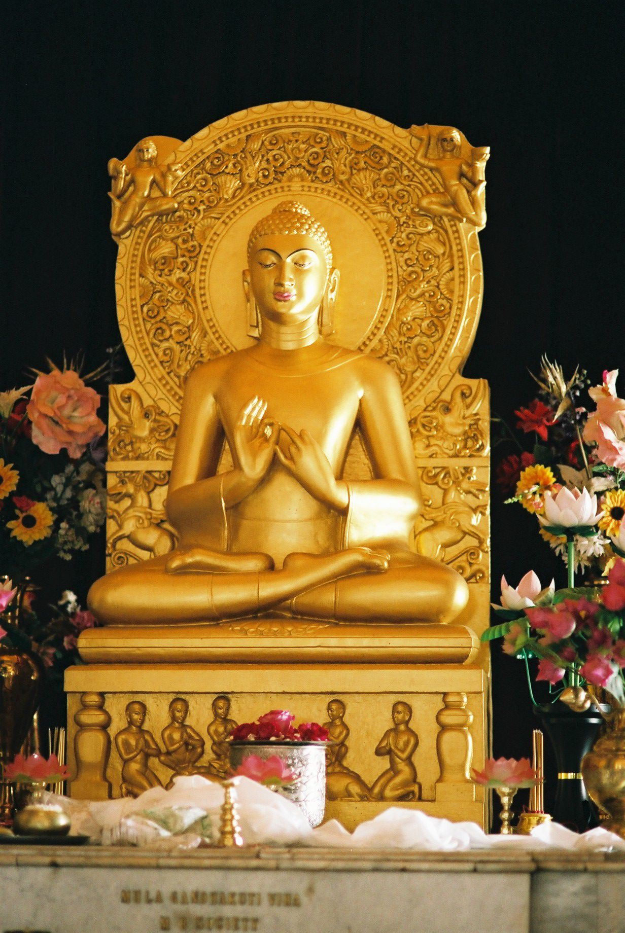 The Image of Buddha (Mulgandha Kuti Vihar) Sarnath, Uttar Pradesh, INDIA